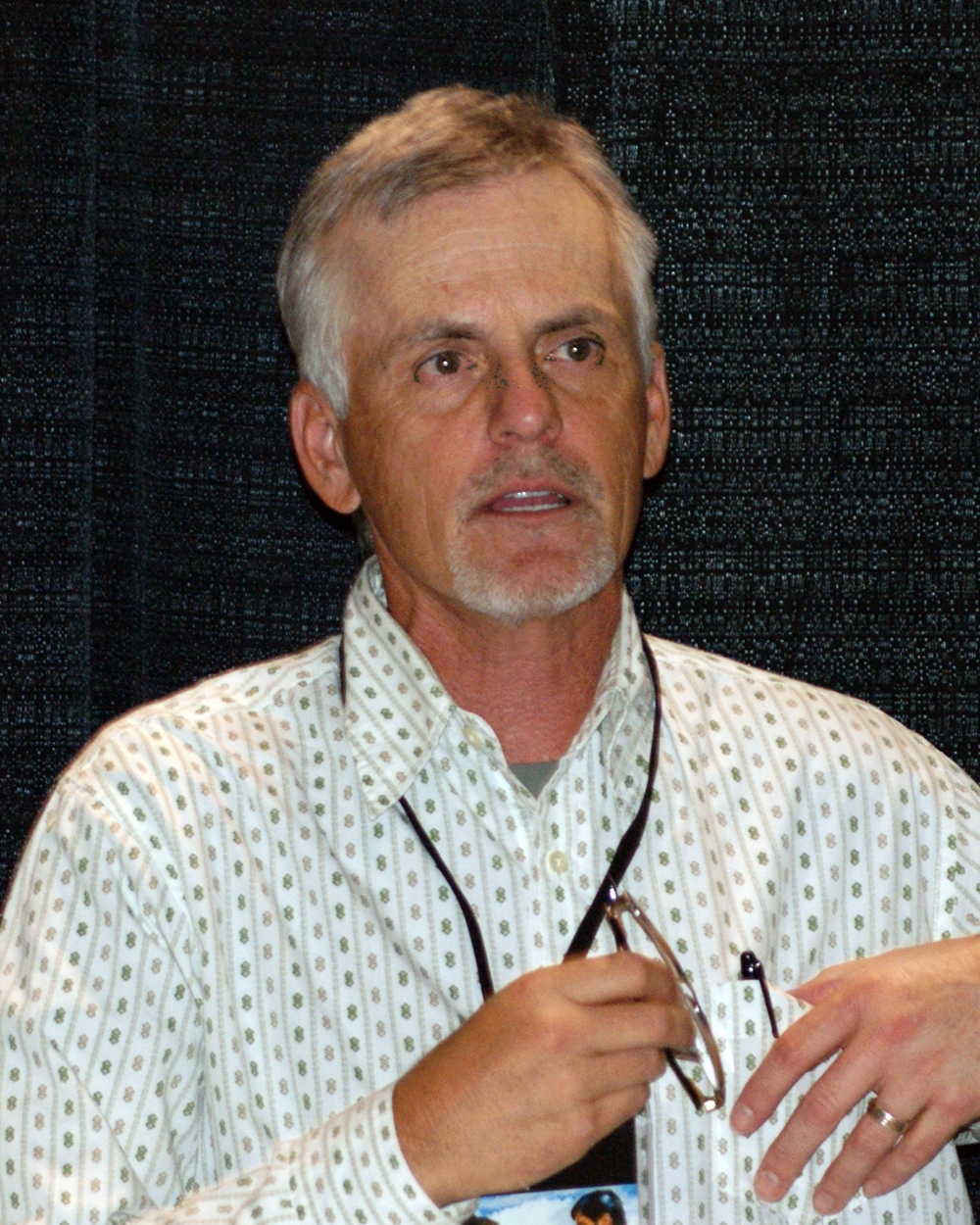 Rob Paulsen, born March 11, 1956 in Detroit, Michigan, is an American voice actor. He is the voice of Raphael from the 1987 cartoon of Teenage Mutant Ninja Turtles; Yakko Warner and Dr. Otto Scratchansniff from Animaniacs; Pinky from Pinky and the Brain; Rev Runner from Loonatics Unleashed; and Throttle from the 1990s and 2006 versions of Biker Mice From Mars. Photo was taken at the Calgary Comic & Entertainment Expo (BMO Centre, Calgary, Alberta, Canada).